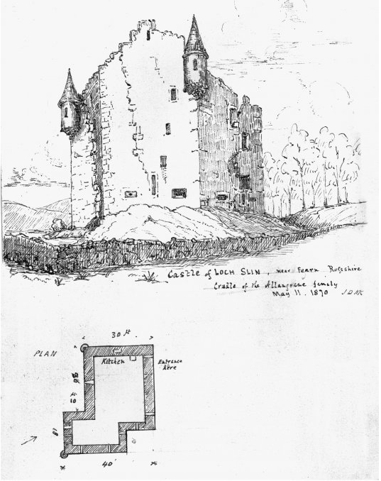 Drawing from 1870 of Loch Slin Castle (Lochslin Castle) in Easter Ross, Scotland